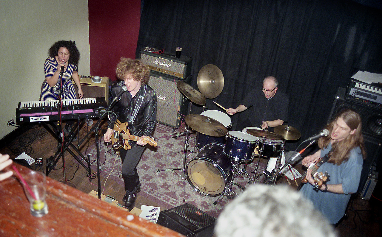 The Loud Family performing at Hotel Utah, San Francisco, CA, Taken in 1999. (L-R: Alison Faith Levy, Scott Miller, Gil Ray, Kenny Kessel)